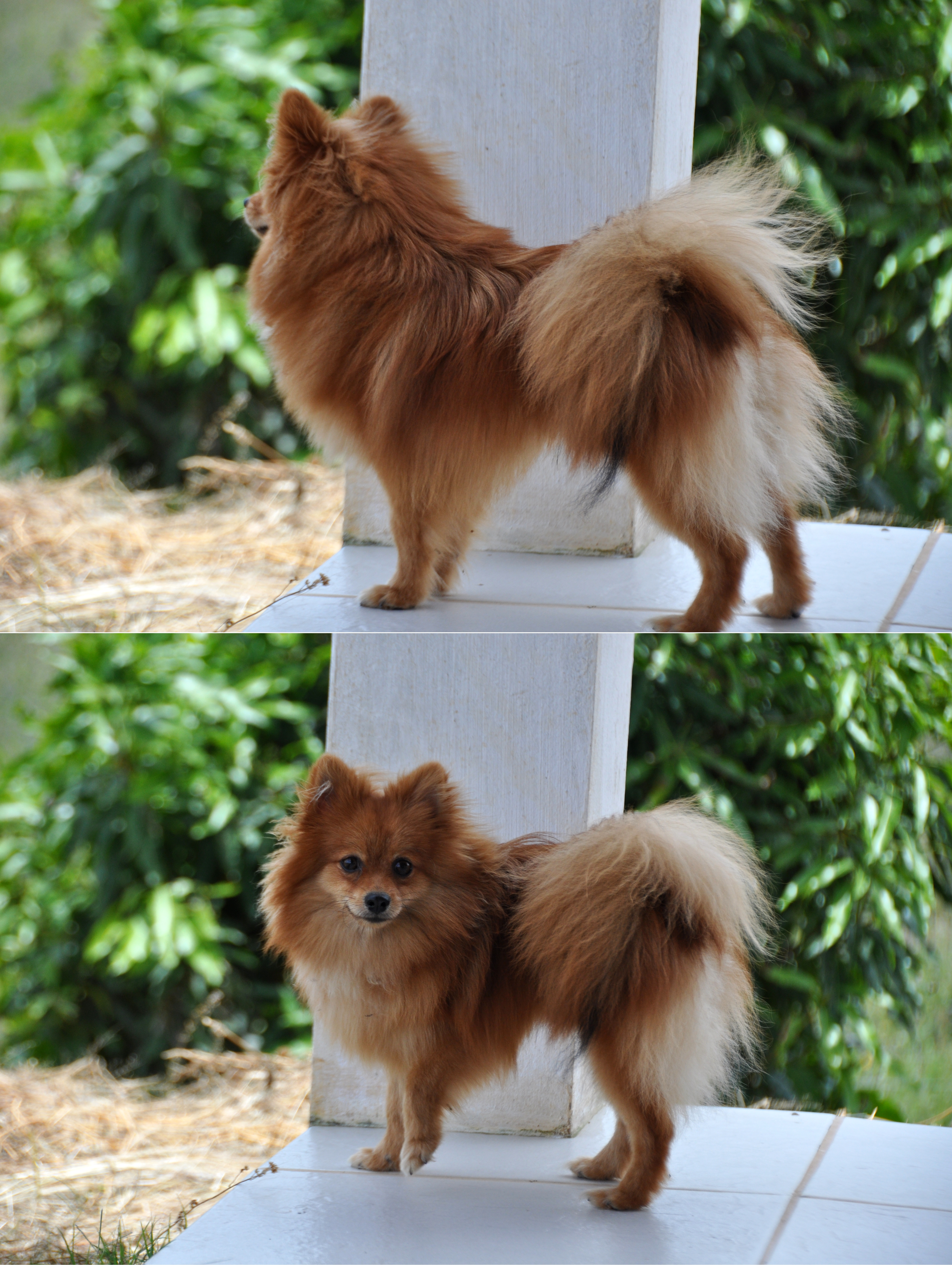 An orange Miniature German Spitz (Klein), 9 months-old.